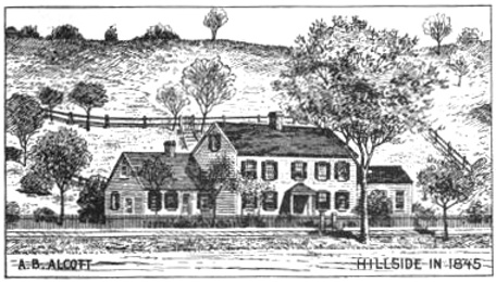 Sketch of the Hillside, a home in Concord, Massachusetts (later renamed The Wayside). Signed by Amos Bronson Alcott (1799-1888); presumably he is the artist. Published in Bronson Alcott at Alcott House, England, and Fruitlands, New England (1842-1844) by Franklin Benjamin Sanborn. The Torch Press, 1908. According to Madelon Bedell's The Alcotts: Biography of a Family (1980), this sketch was made by Alcott.